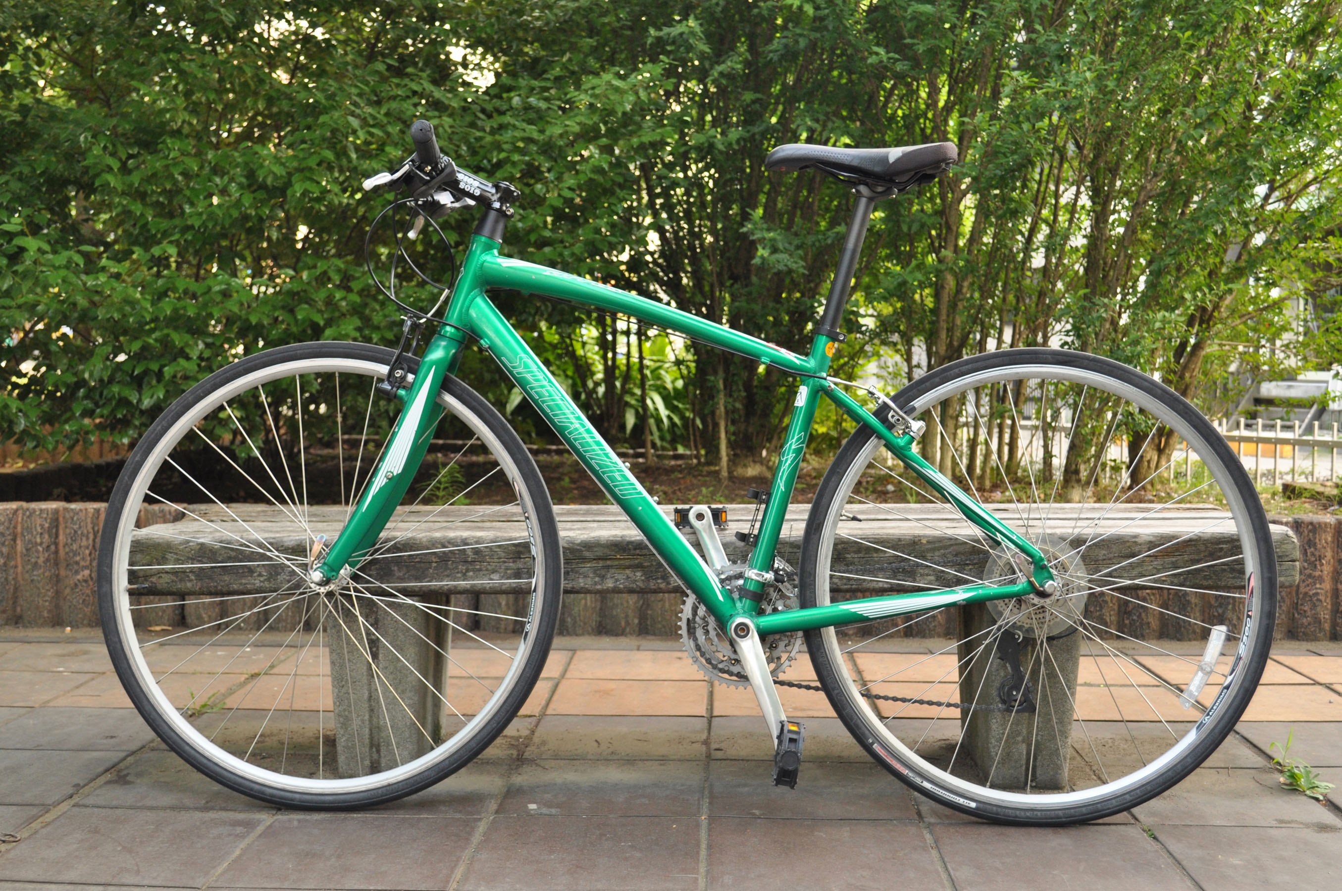 Specialized Sirrus 2007